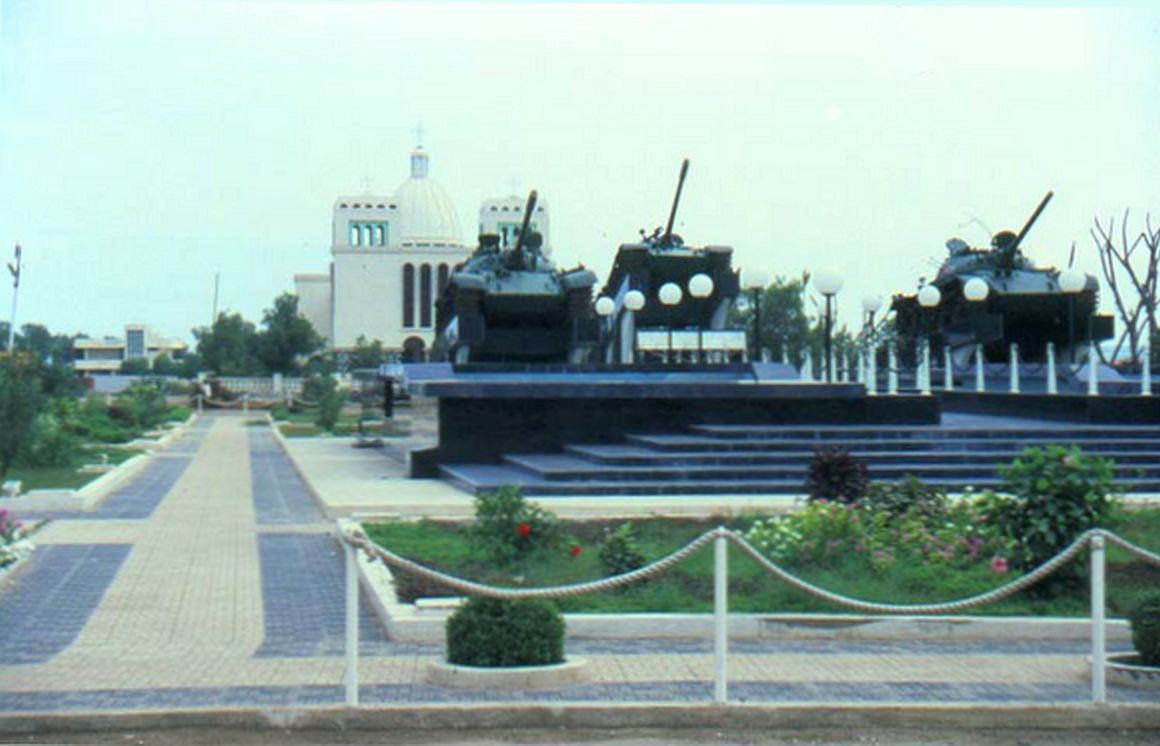 War Memory Square in Massawa. Background: Coptic-Orthordox Church